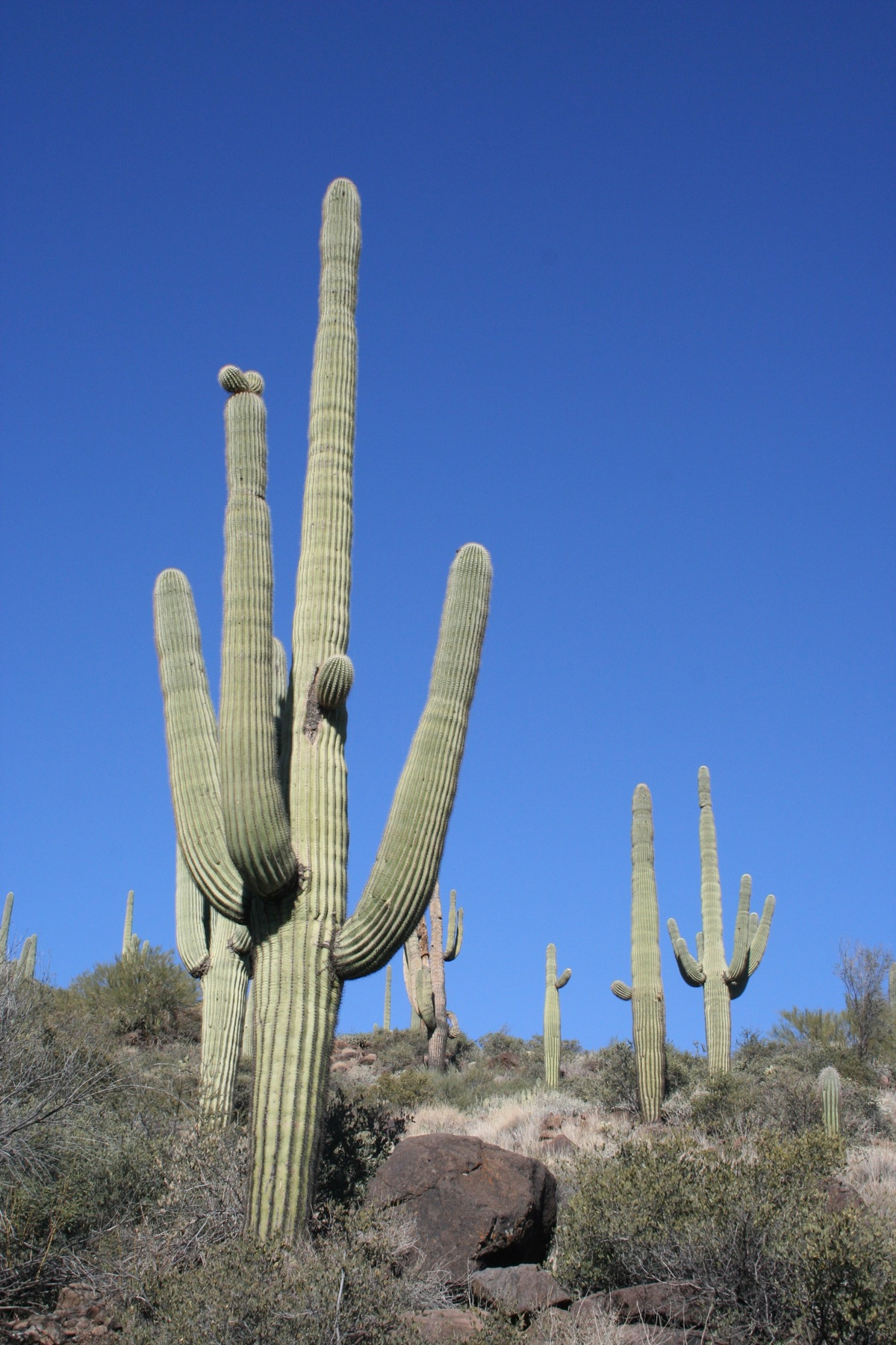 Spur Cross Park, north of Cave Creek, Arizona.Big Saguaro